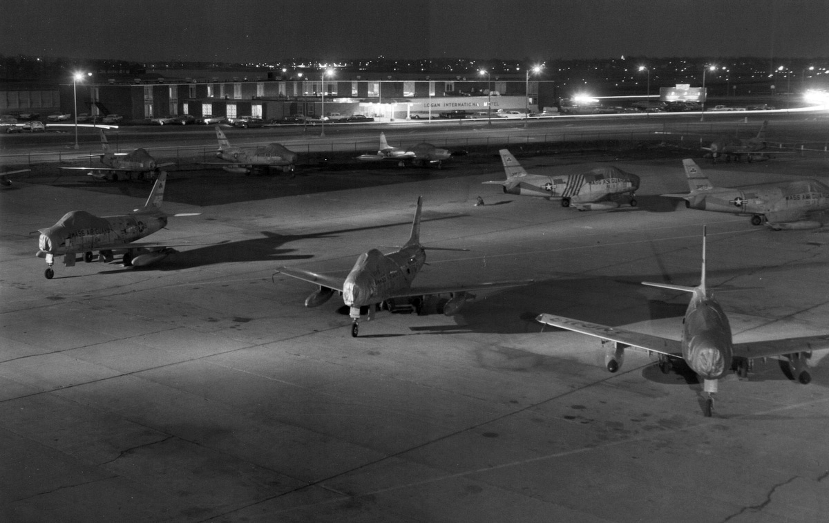 U.S. Air Force North American F-86H Sabre fighters of the 101st Tactical Fighter Squadron, Massachusetts Air National Guard, at Logan Airport, Boston, Masschusetts (USA), at night. The 101st TFS flew the F-86H from 1958 to 1964. Note the Lockheed T-33A Shooting Star trainer in the background.